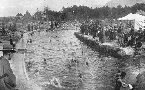 Tsurumi-en Park in 1930s